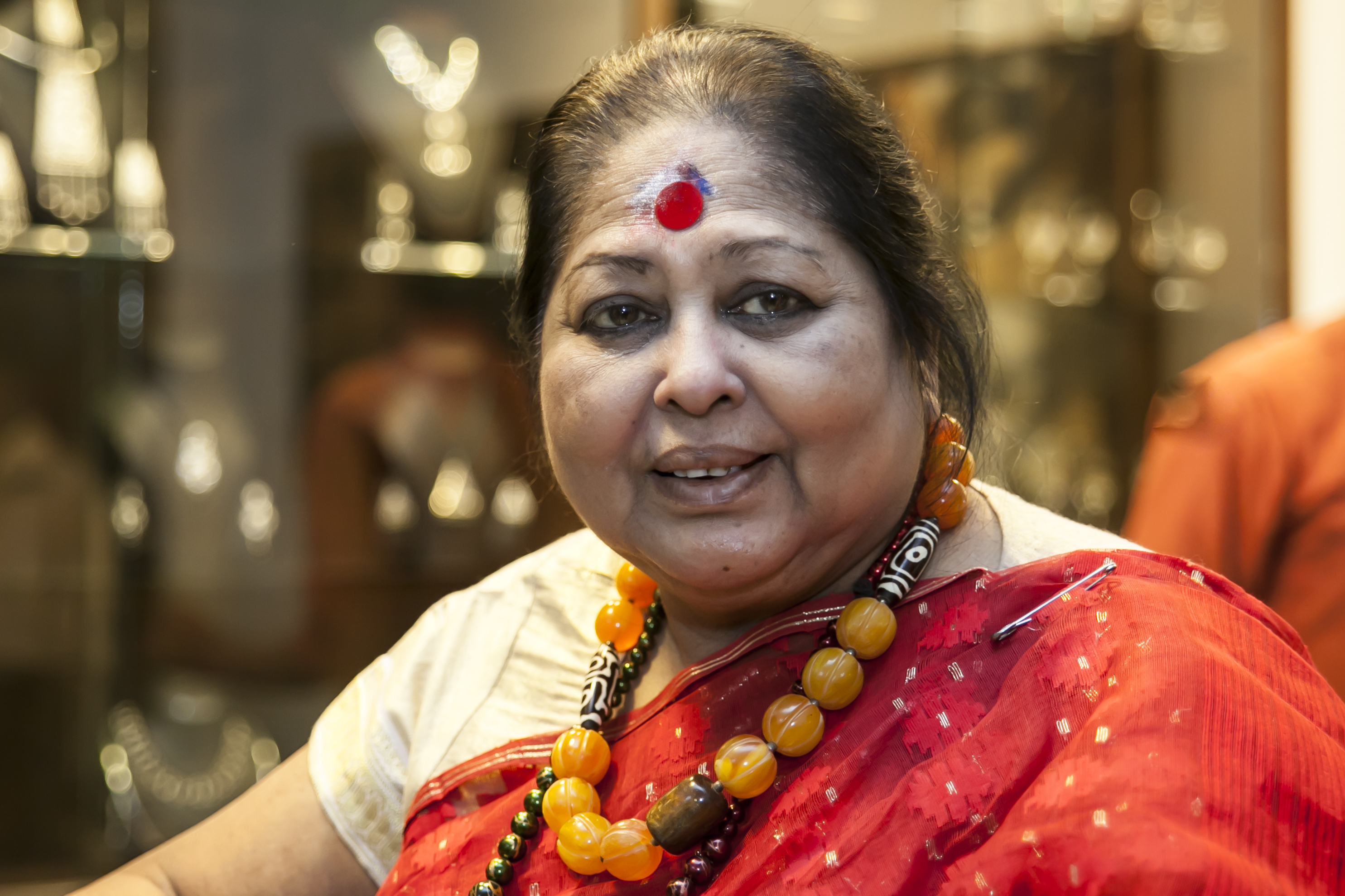 Ferdousi Priyabhashini, Bangladeshi sculptor